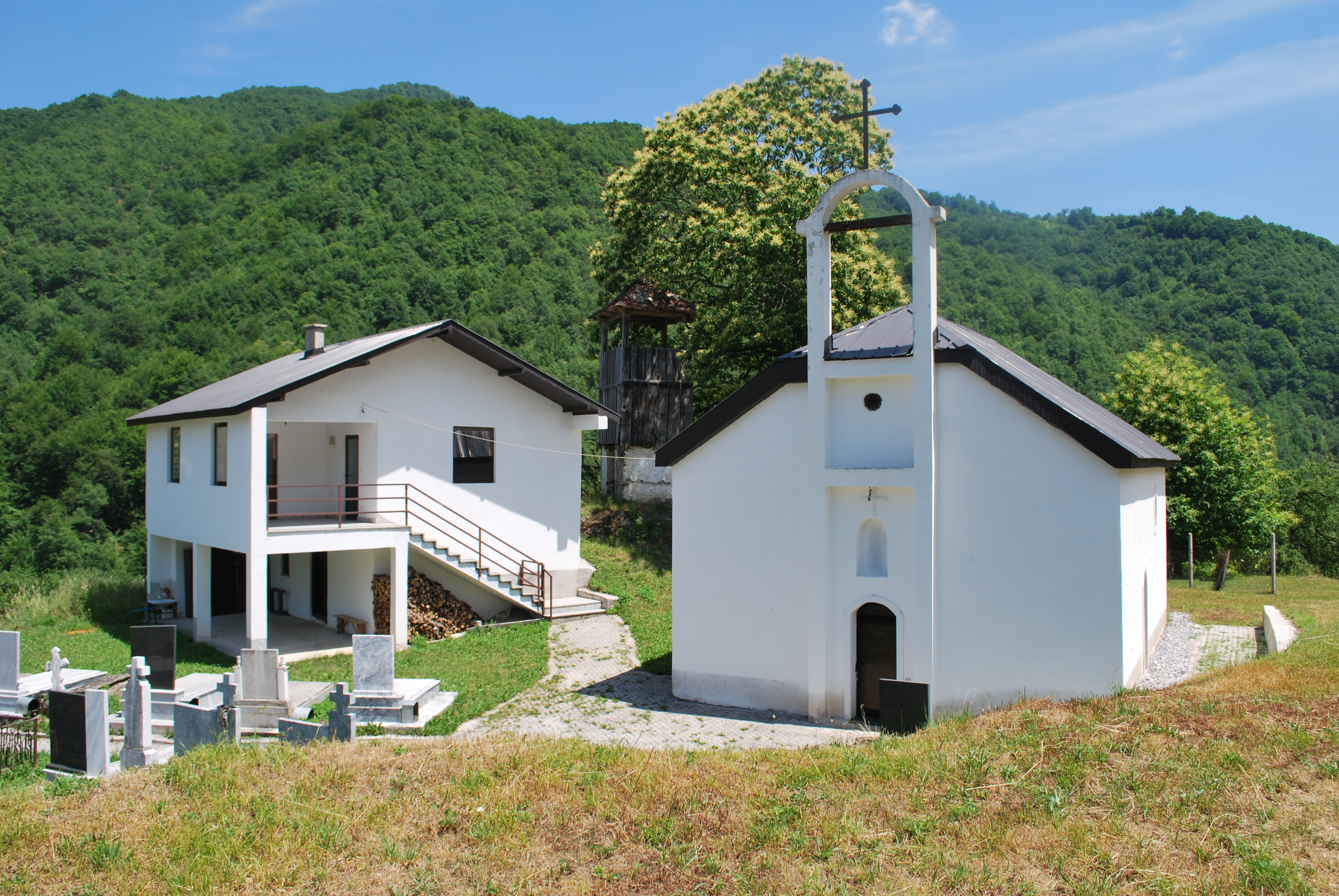 St. Elijah Church in Železna Reka near Gostivar, Macedonia